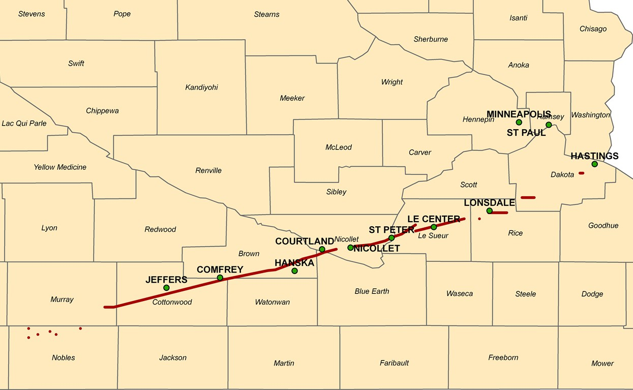 Storm prediction center severe weather outlook on March 29, 1998